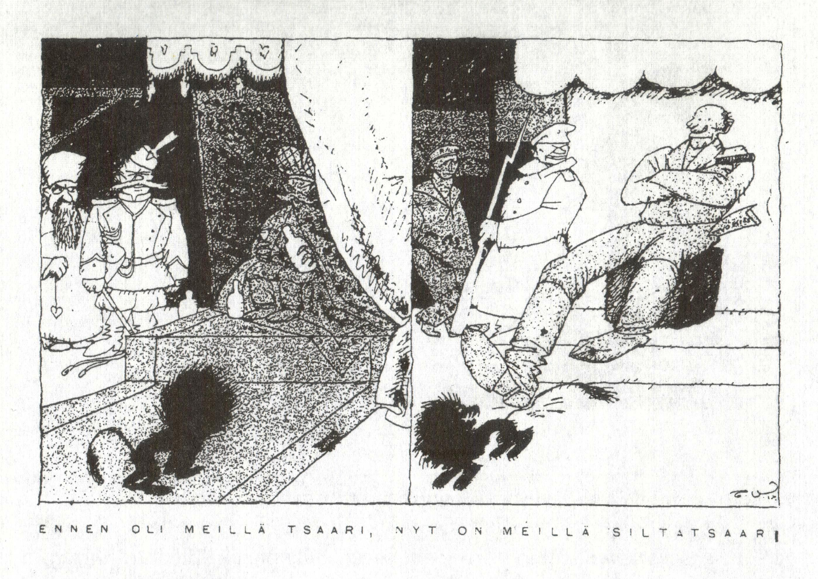 "Before we had the czar, now we have the Siltatsaari [Silta-czar]"; right-wing caricaturist Topi Vikstedt thought that the left wing of labour movement (which had its headquarters in Helsinki's Siltasaari) had replaced the Russian czar as the main opressor of Finland – and was possibly worse. Published in Finnish humour magazine Kerberos.